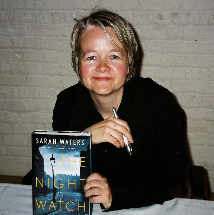 Sarah Waters, British novelist. At a signing it 'Women and Children First' BookshopLee Child in Chicago.